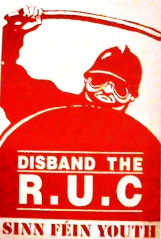 Ogra Shinn Fein sticker regarding the RUC